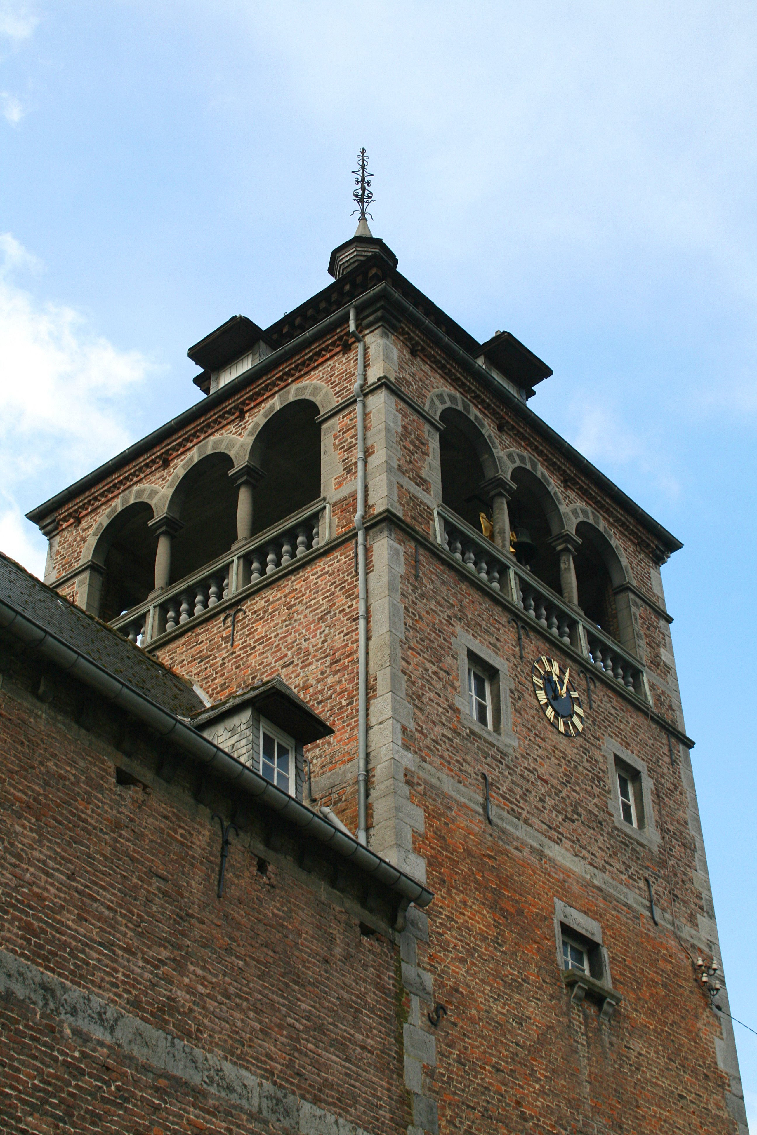 Dinant (Belgium), bell tower of the Abbaye Notre-Dame de Leffe (XVI-XVIIth centuries).